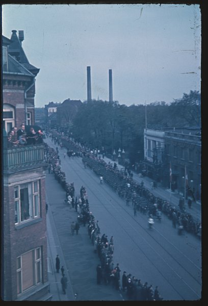 More images from The Museum of Danish Resistance